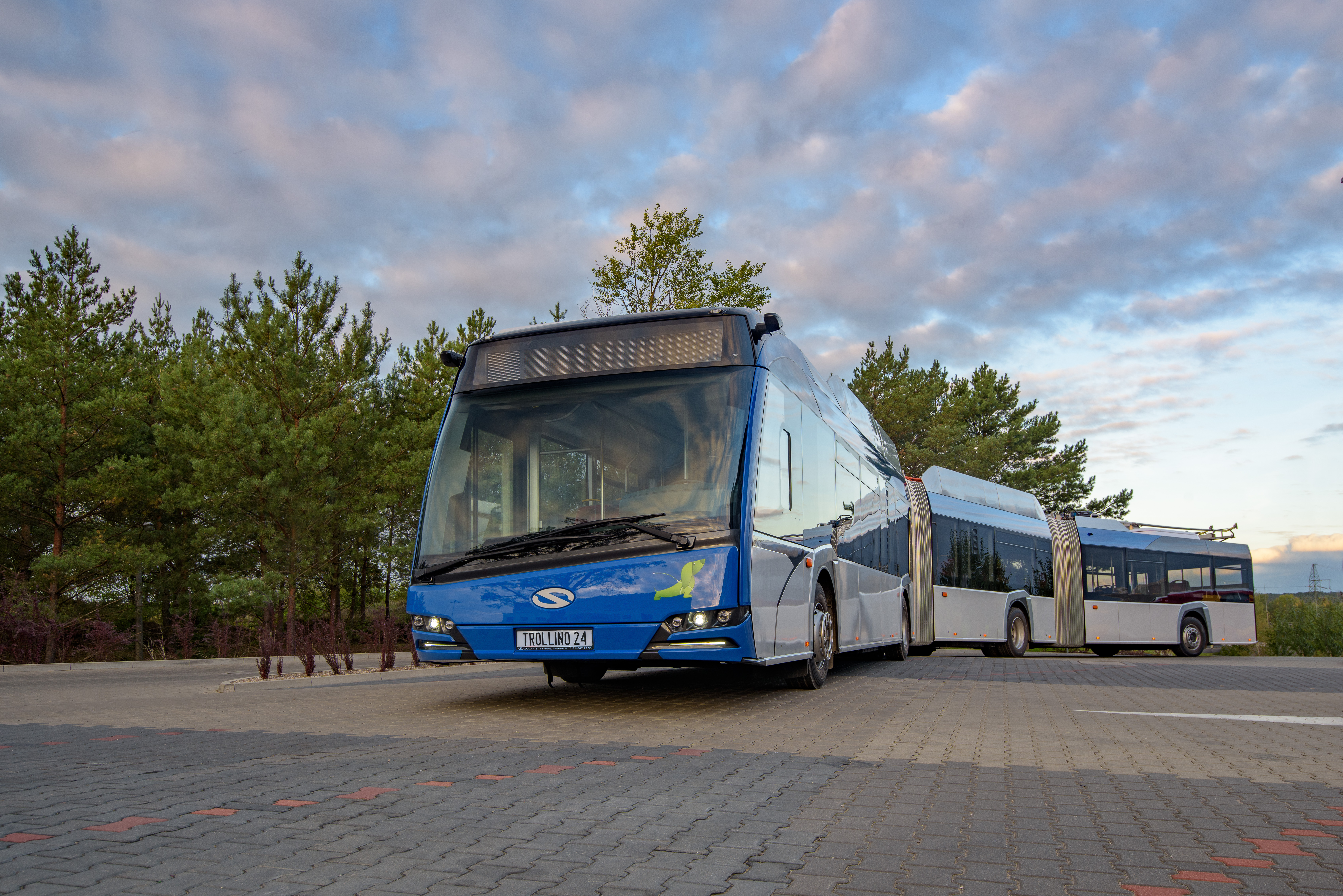 Solaris Trollino 24 MetroStyle - prototype built in 2019